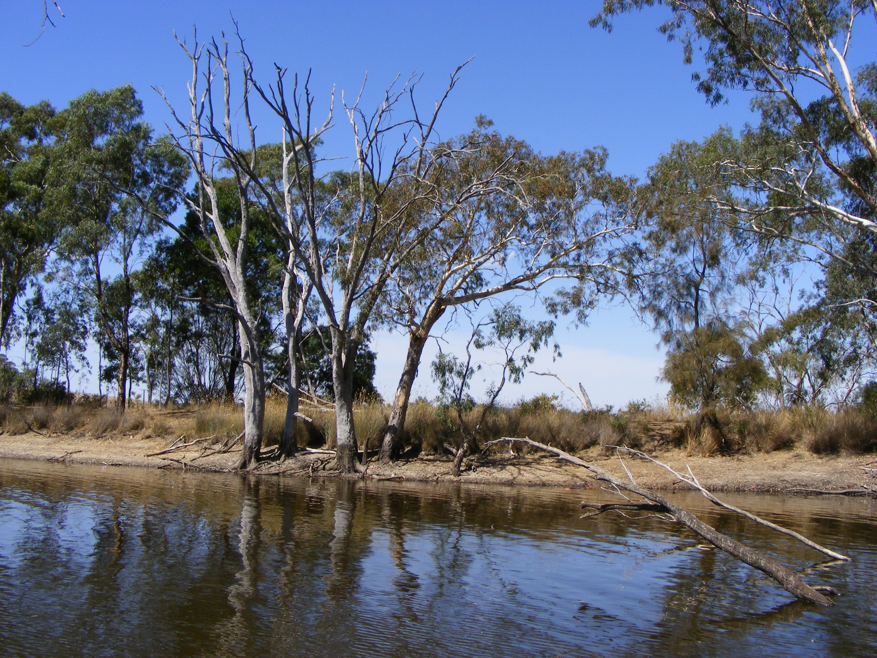 Eastern edge of the Dam, Totness recreation park, South Australia